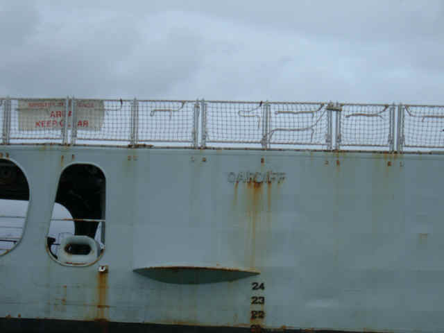 HMS Cardiff in Portsmouth Harbor, 2007. This is her starboard quarter, her name is rusted and worn.